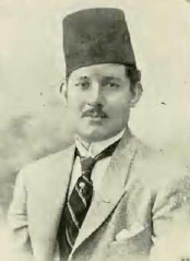 A photograph of the Egyptian writer, composer, and poet, Badia Khairi.